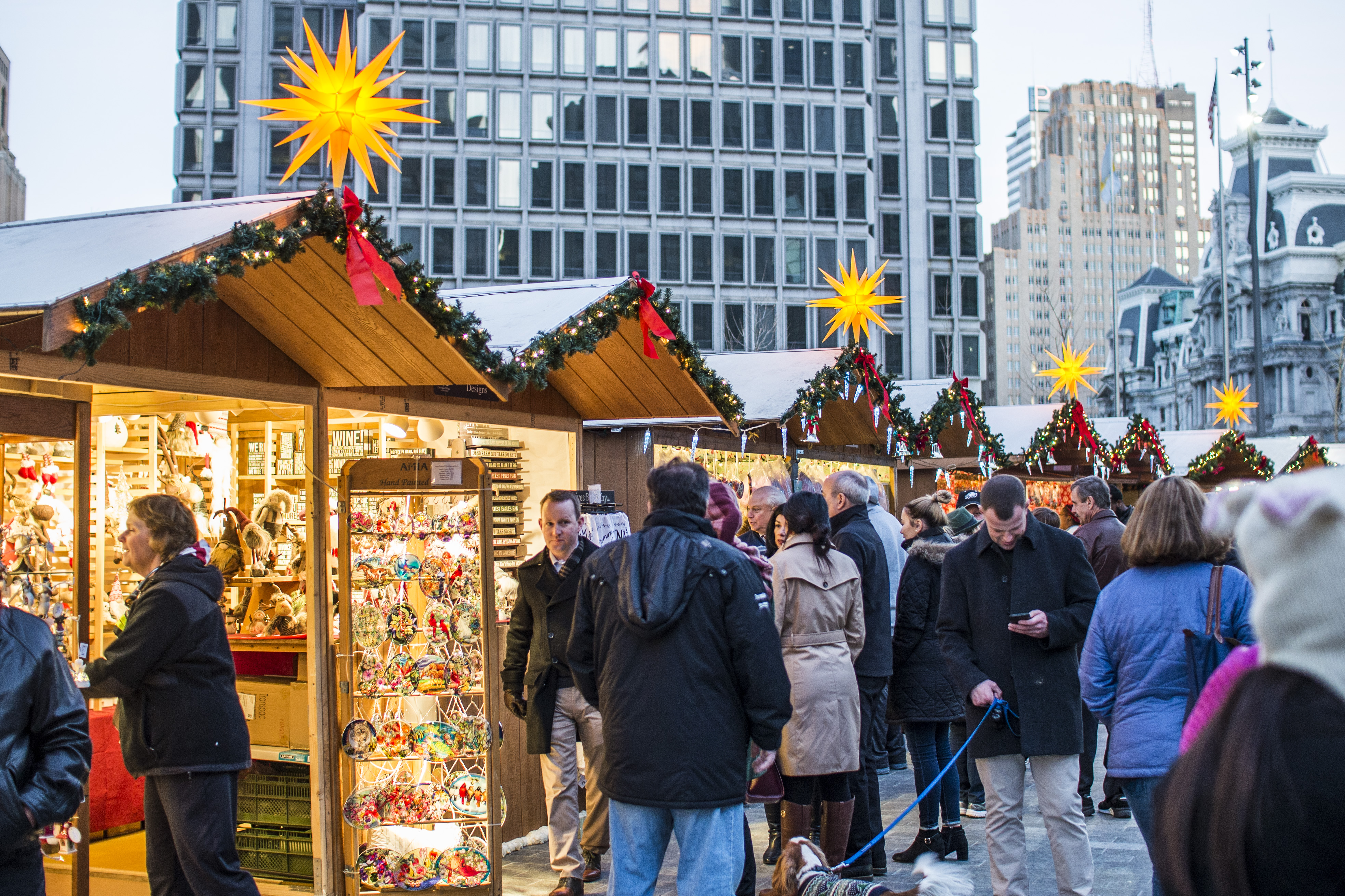 Shoppers at Christmas Village in Philadelphia in LOVE Park